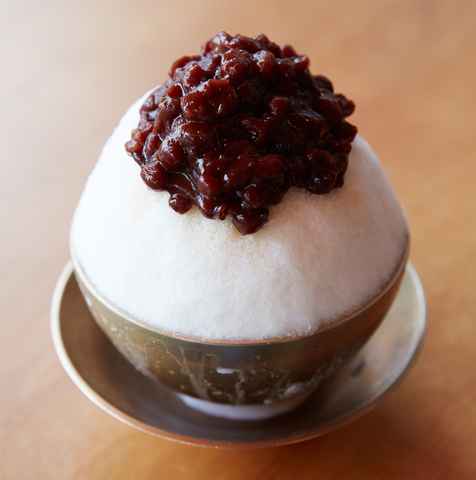 patbingsu